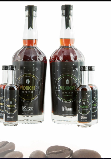 Midnight Espresso Coffee Liqueurs are vodka-based coffee liqueurs utilizing a globally award-winning artisanal vodka that’s handcrafted in the U.S.A.